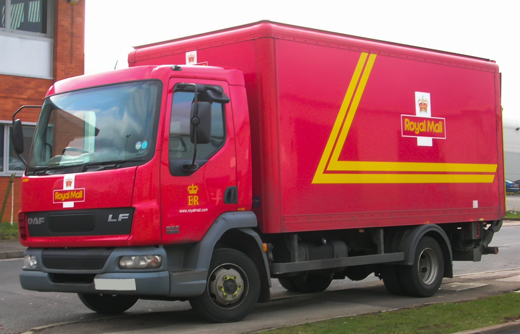 A 2005 DAF LF45 130